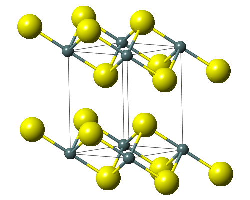 Tin(IV) sulfide ball-and-stick with the unit cell, hexagonal, P3m1, 1 molecule in the cell.